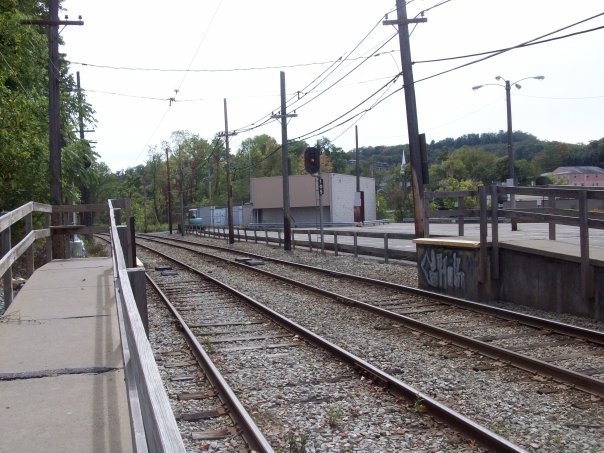 The Port Authority of Allegheny County's West Library light-rail station; September 25, 2009.